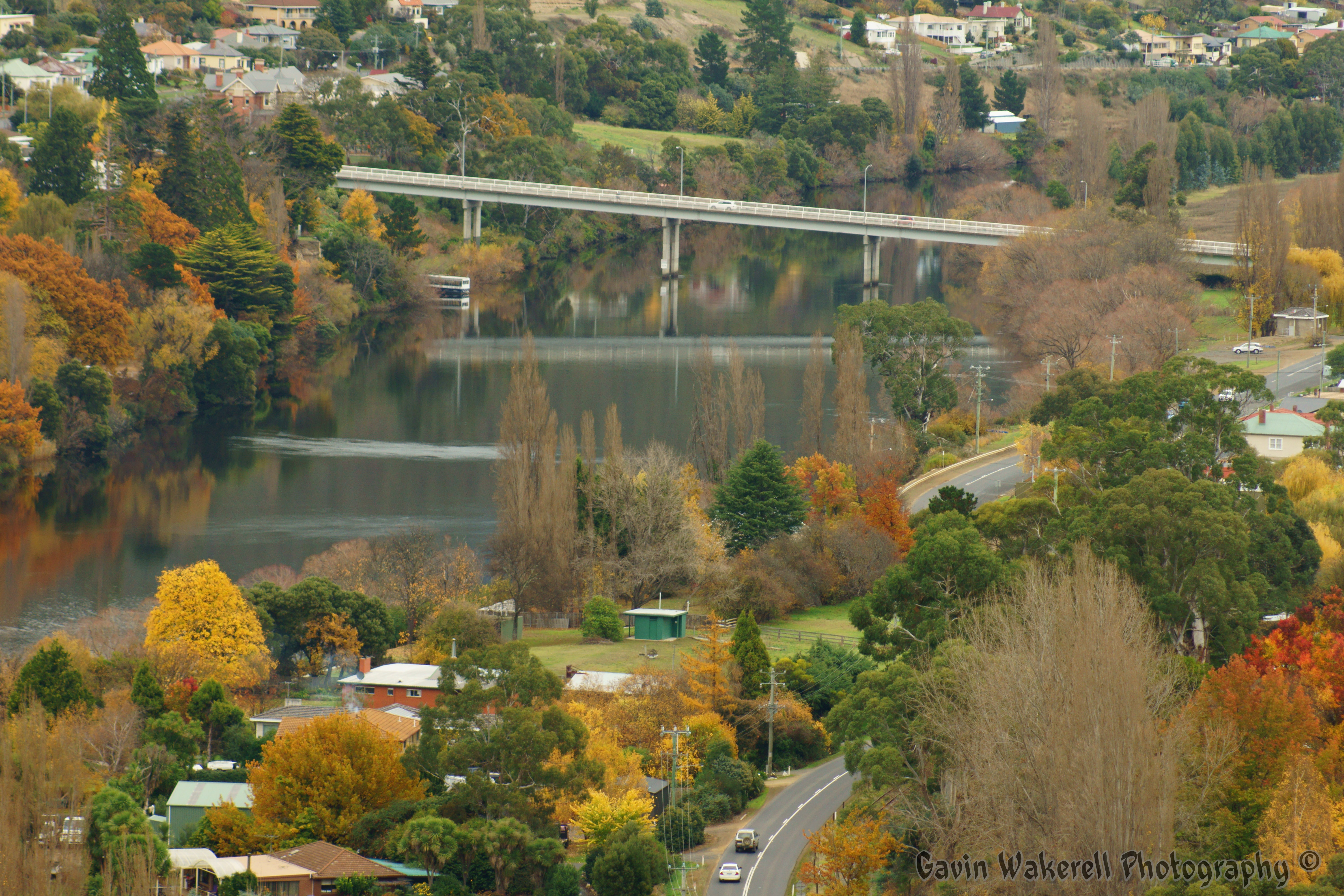 View of the New Norfolk town and bridge in Tasmania, Australia. Taken from Pulpit Rock look out.